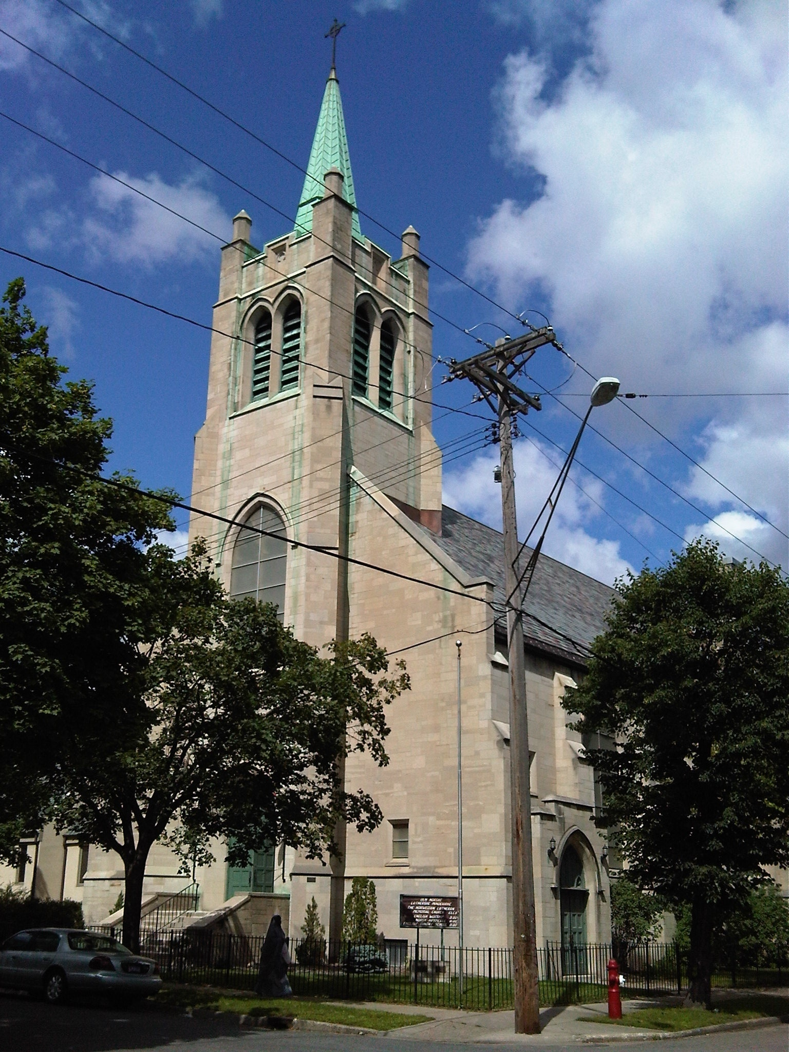 Picture taken by myself, "LP-mn", and I place it in the public domain. As name implies, it's a picture of Norwegian Lutheran Memorial Church, better known as Mindekirken, taken from across the street to the SE, looking to the NW. The Norwegian Lutheran Memorial Church · 924 E. 21st St, Minneapolis, MN 55404-2952 · (612)874-0716 ·